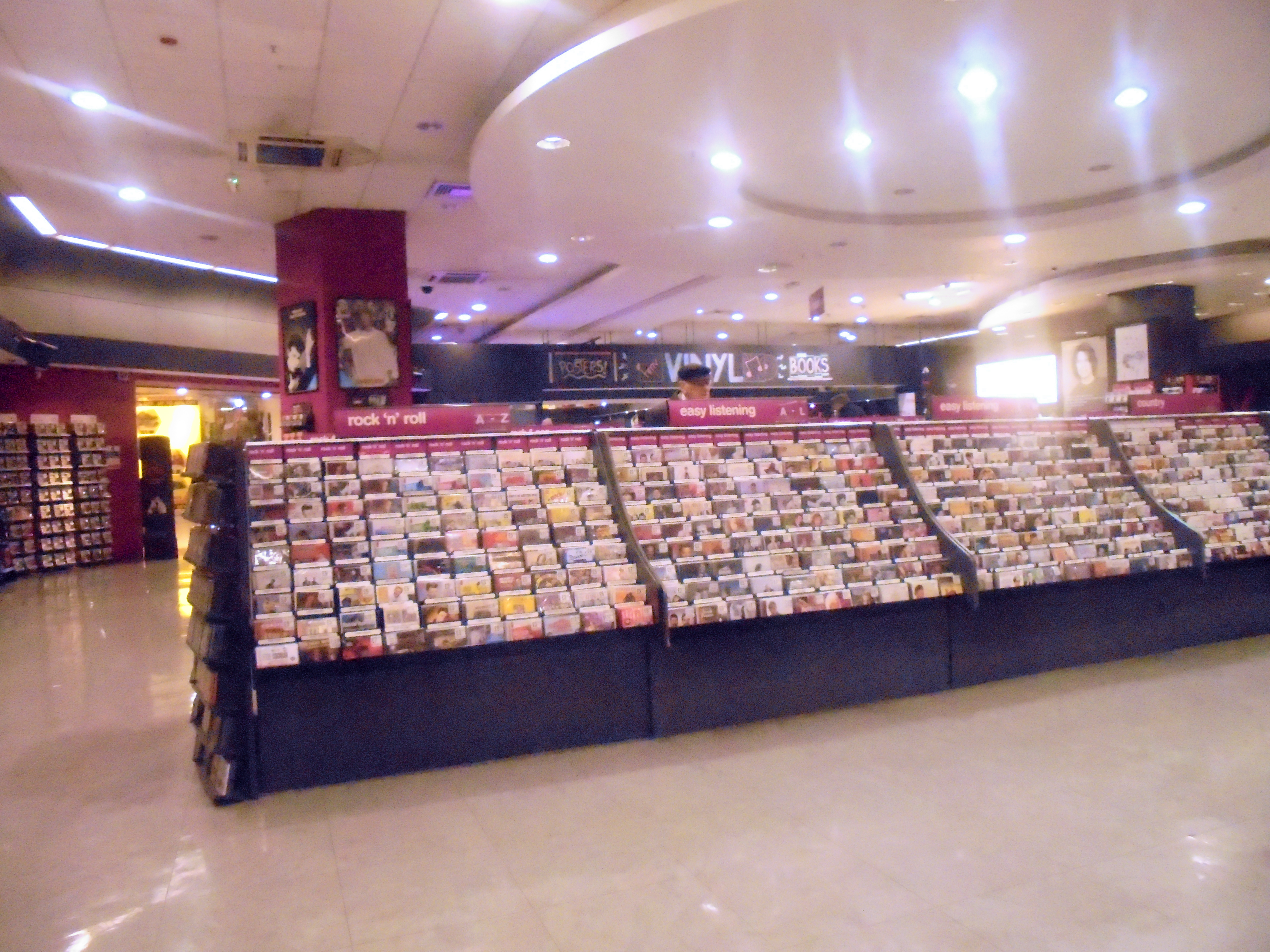 First Floor, HMV, Lands Lane, Leeds, West Yorkshire. Taken on the afternoon of Wednesday the 6th of March 2019.